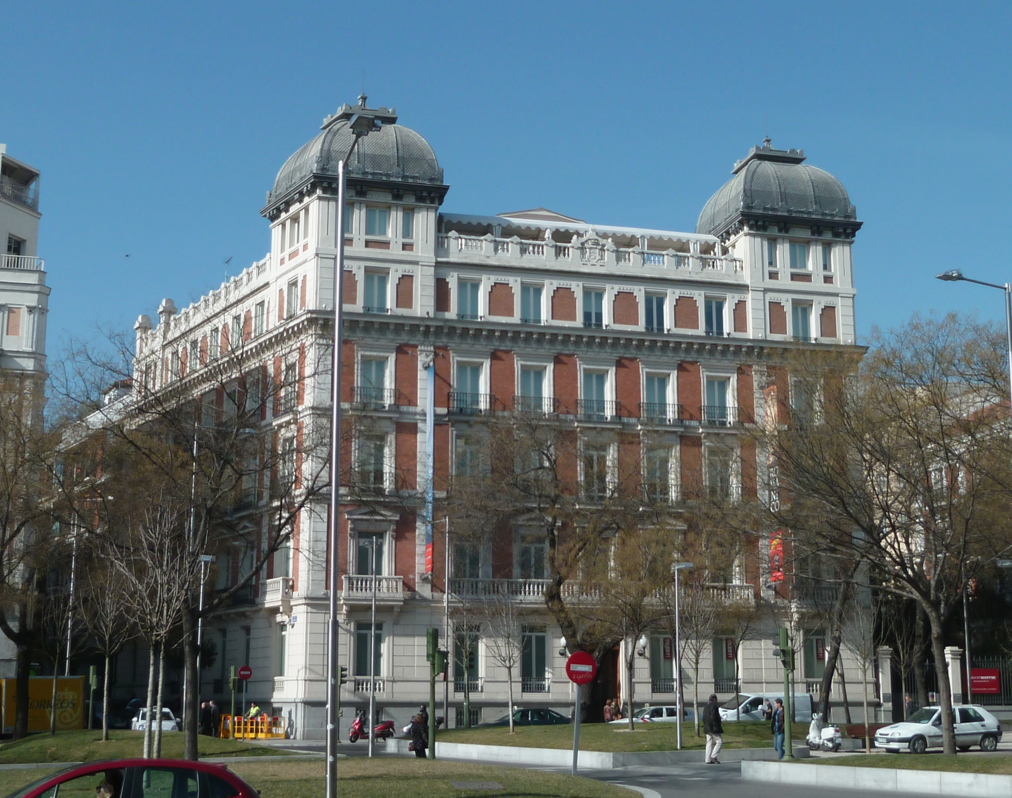 Former Mansion of the Duchess of Medina de las Torres at 23th Paseo de Recoletos (a boulevard) in Madrid (Spain). Building was designed in 1881 by Agustín Ortiz de Villajos and built in the 1880's.